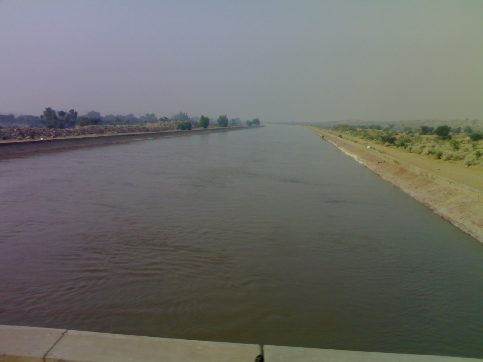 I have taken this encylopaedic photo of Rajasthan Canal(Indira Gandhi Canal) passing near Chhatargarh, Bikaner District, India.This area is located in Thar desert.mo. 9829800543 Shemaroo (talk) 04:04, 24 October 2011 (UTC) FULL NAME INDA GHNDI NAHAER ABOVE ITY OUTCCIE